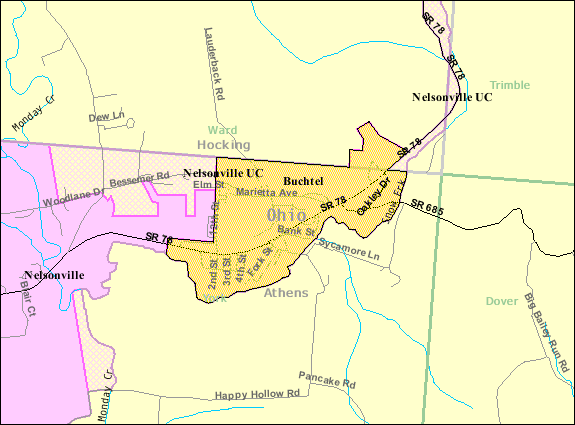 Map of Buchtel, a village in Athens and Hocking counties in the U.S. state of Ohio, with its boundaries at the time of the 2000 census.